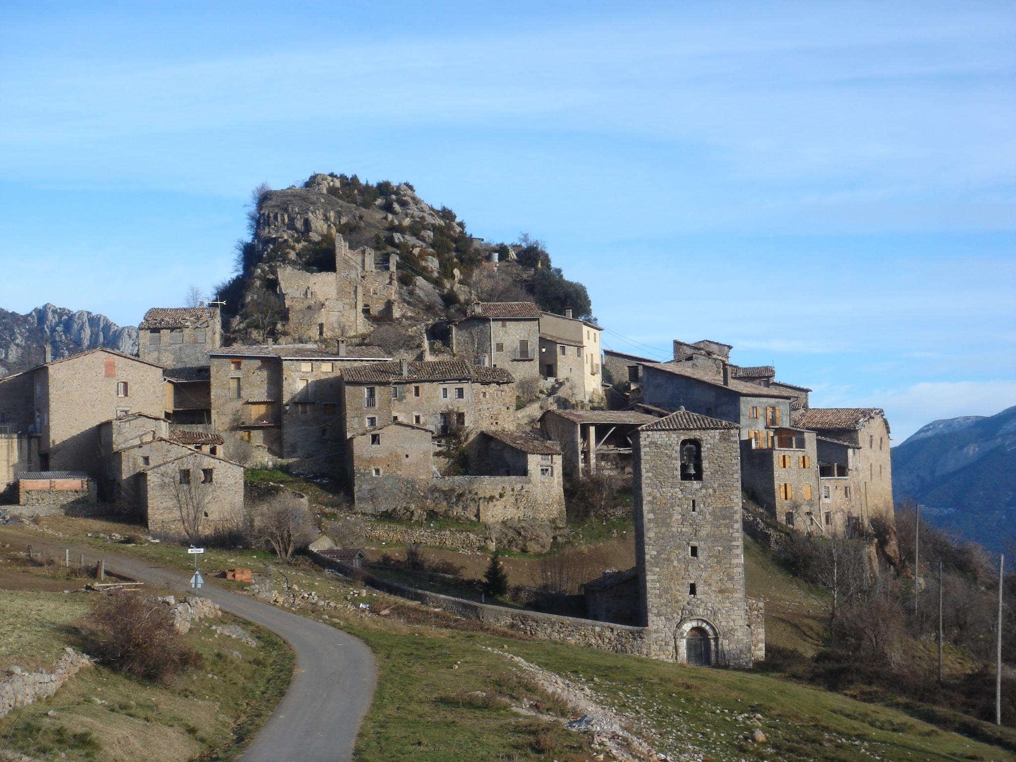 Village of Betesa